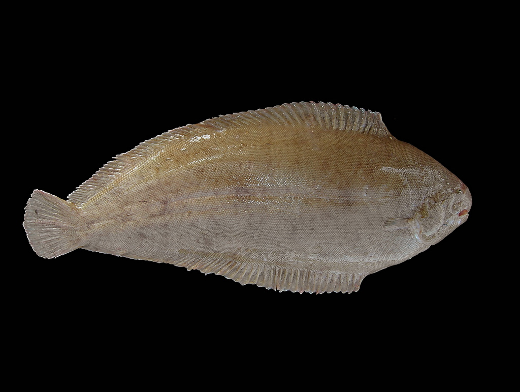 Dover Sole from the Belgian coastal waters.